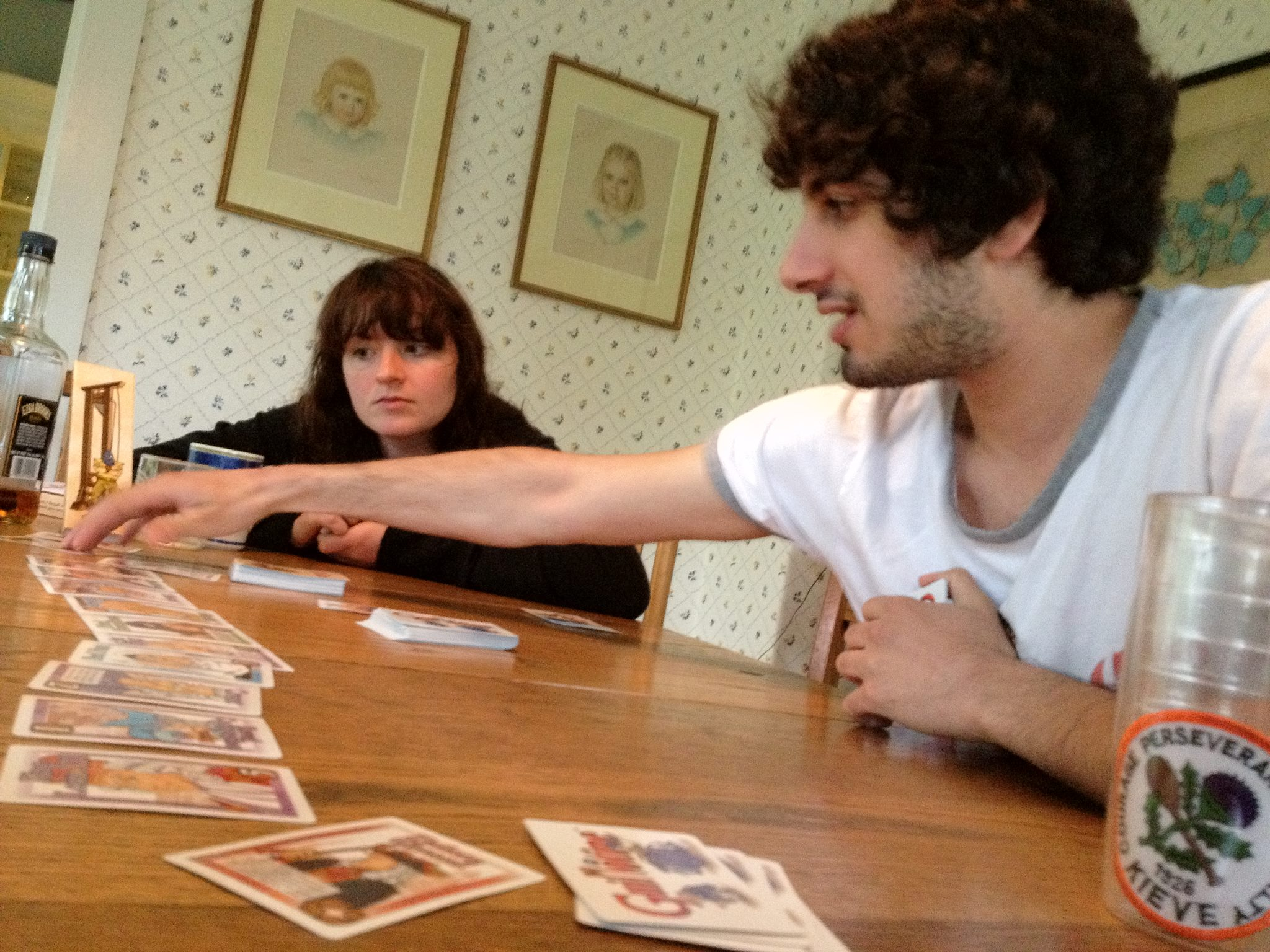 A group of executioners playing Guillotine the board game.